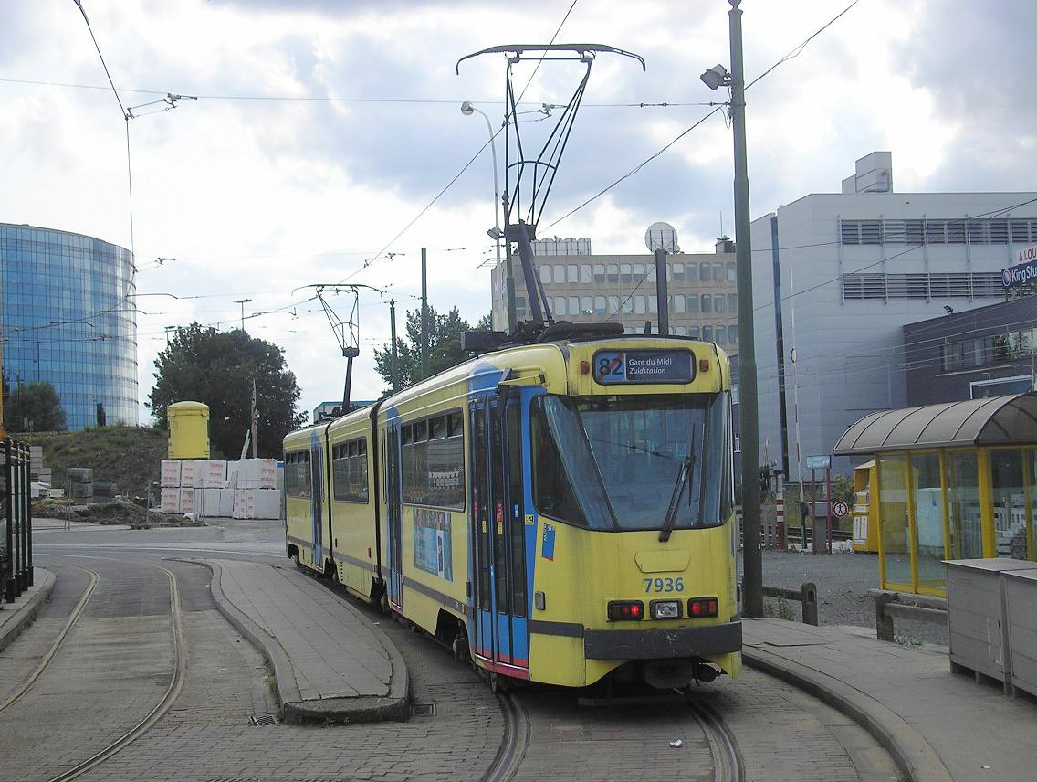 Triple articulated Brussels city tram, line 82, tram stop Berchem Station.